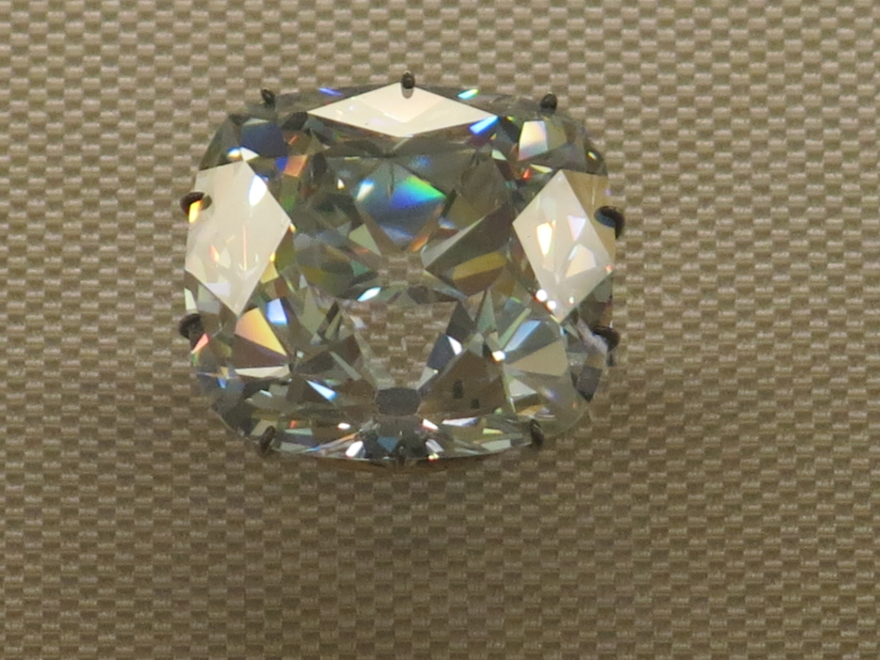 Regent Diamond. Apollo gallery of Louvre museum (Paris, France).